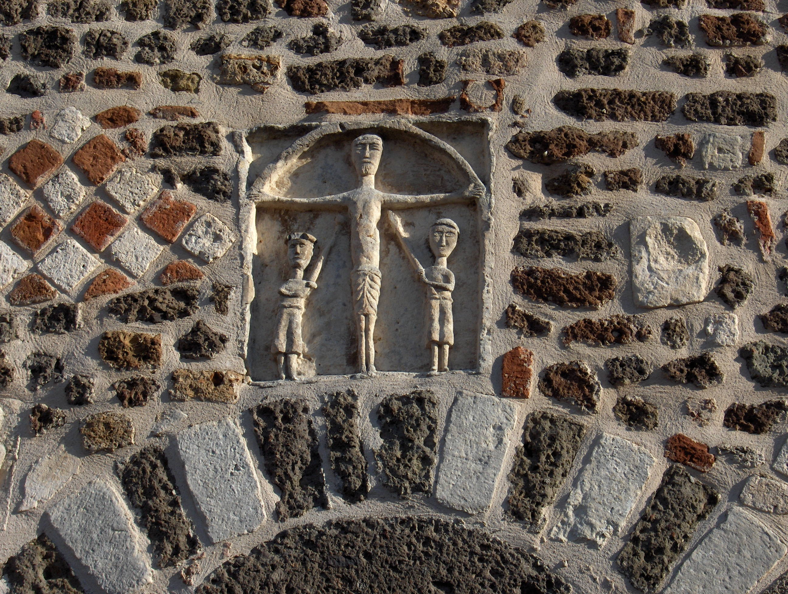 Roman church of Saint jean-Baptiste, Chassenon, Charente, France. Sculpture above the main door, representing a scene from the Passion : the Christ, crucified, is surrounded by two soldiers, one holding the spear and the other the sponge.